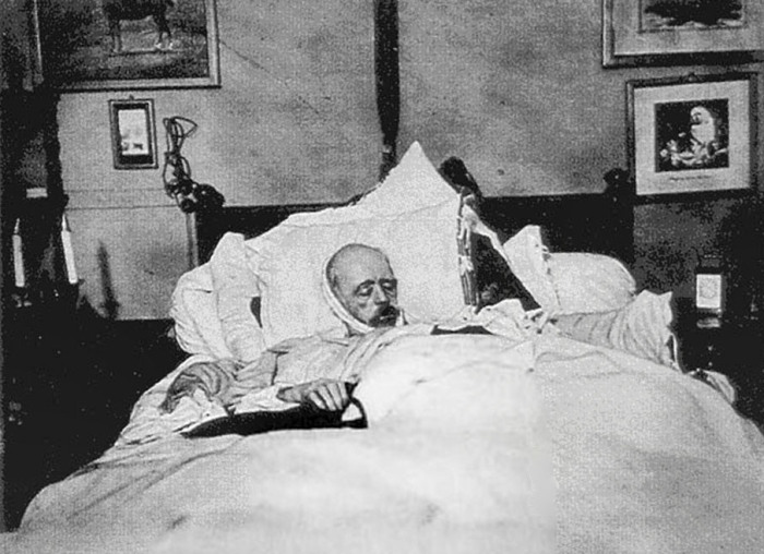 Bismarck on his Deathbed (Retouched photo)